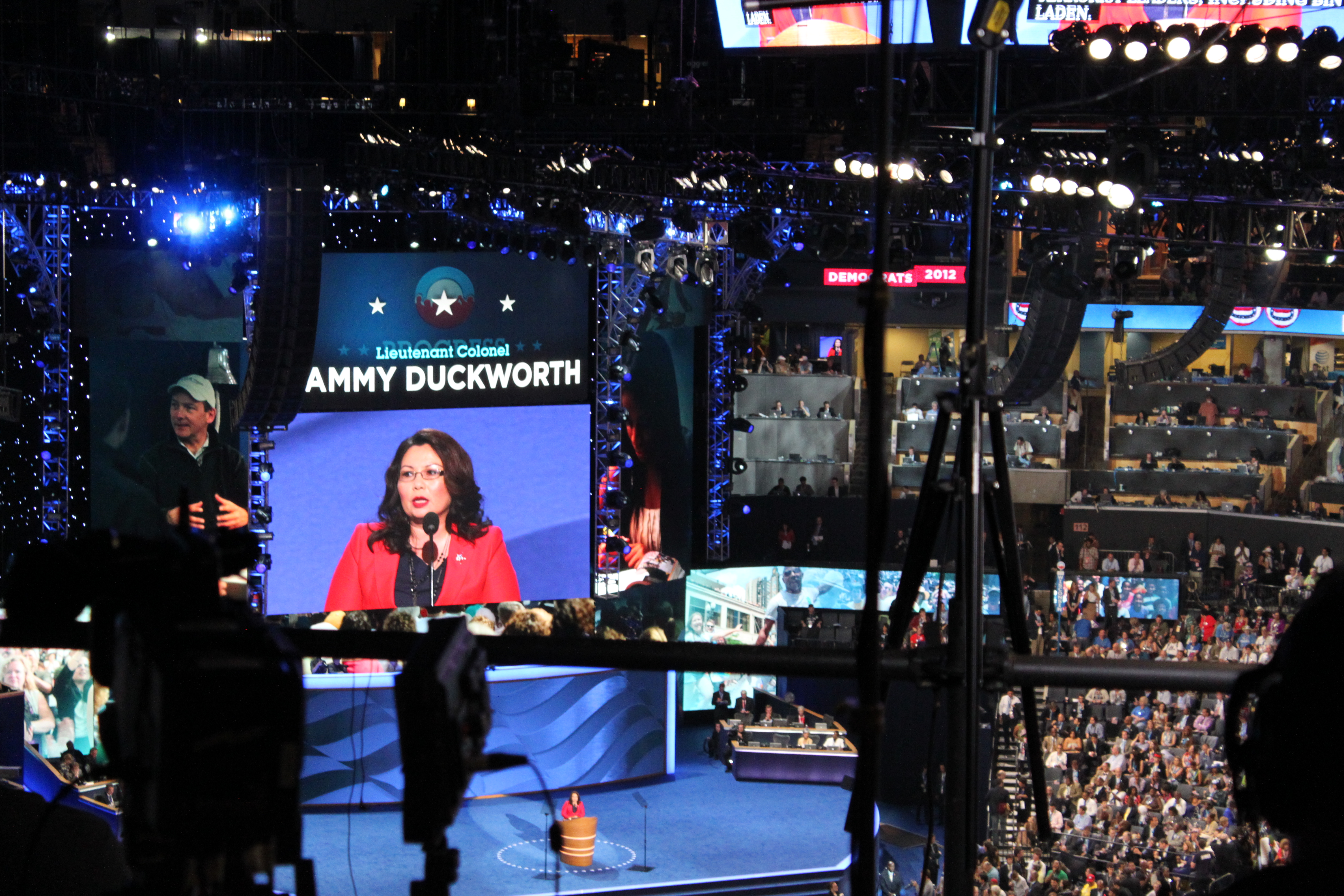 2012 Democratic National Convention